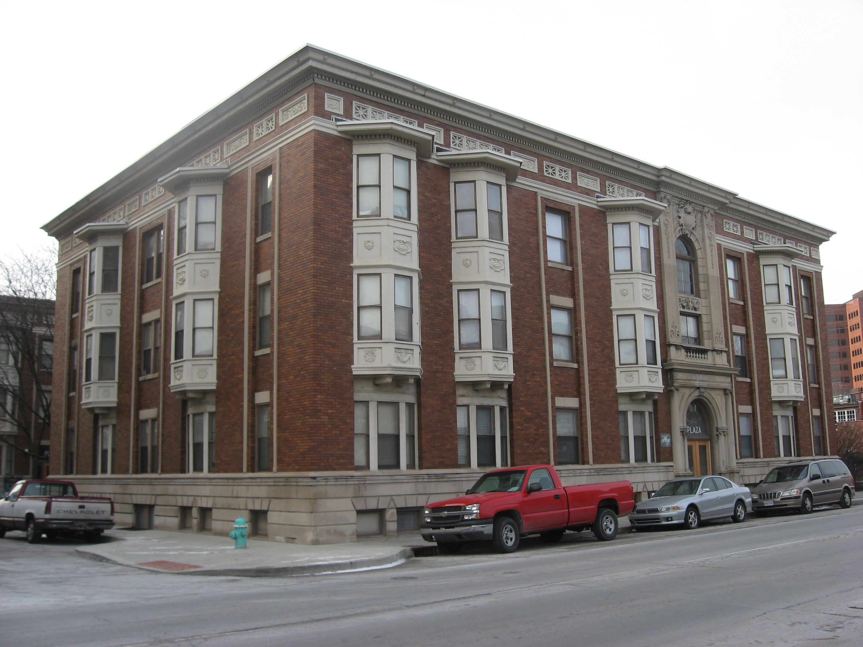 Front of The Plaza, located at 902 N. Pennsylvania Street in Indianapolis, Indiana, United States. Built in 1907, it is listed on the National Register of Historic Places as one of the "Apartments and Flats of Downtown Indianapolis Thematic Resources".